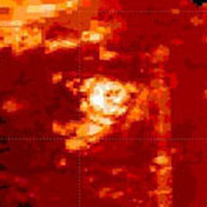 This high-resolution infrared image was taken during the Cassini spacecraft's closest approach to Titan on Oct. 26, 2004. These images were obtained by Cassini's visual and infrared mapping spectrometer instrument and show a bright, circular feature (8.5 degrees latitude, minus 143.5 degrees longitude) with two elongated wings extending westwards, later named Tortola Facula and dubbed "The Snail" due to the curling shape. Scientists formerly interpeted this feature as cryovolcano. The resolution in the image varies from 2.6 kilometers (1.6 miles) per pixel to 1.8 kilometers (1.1 miles) per pixel.